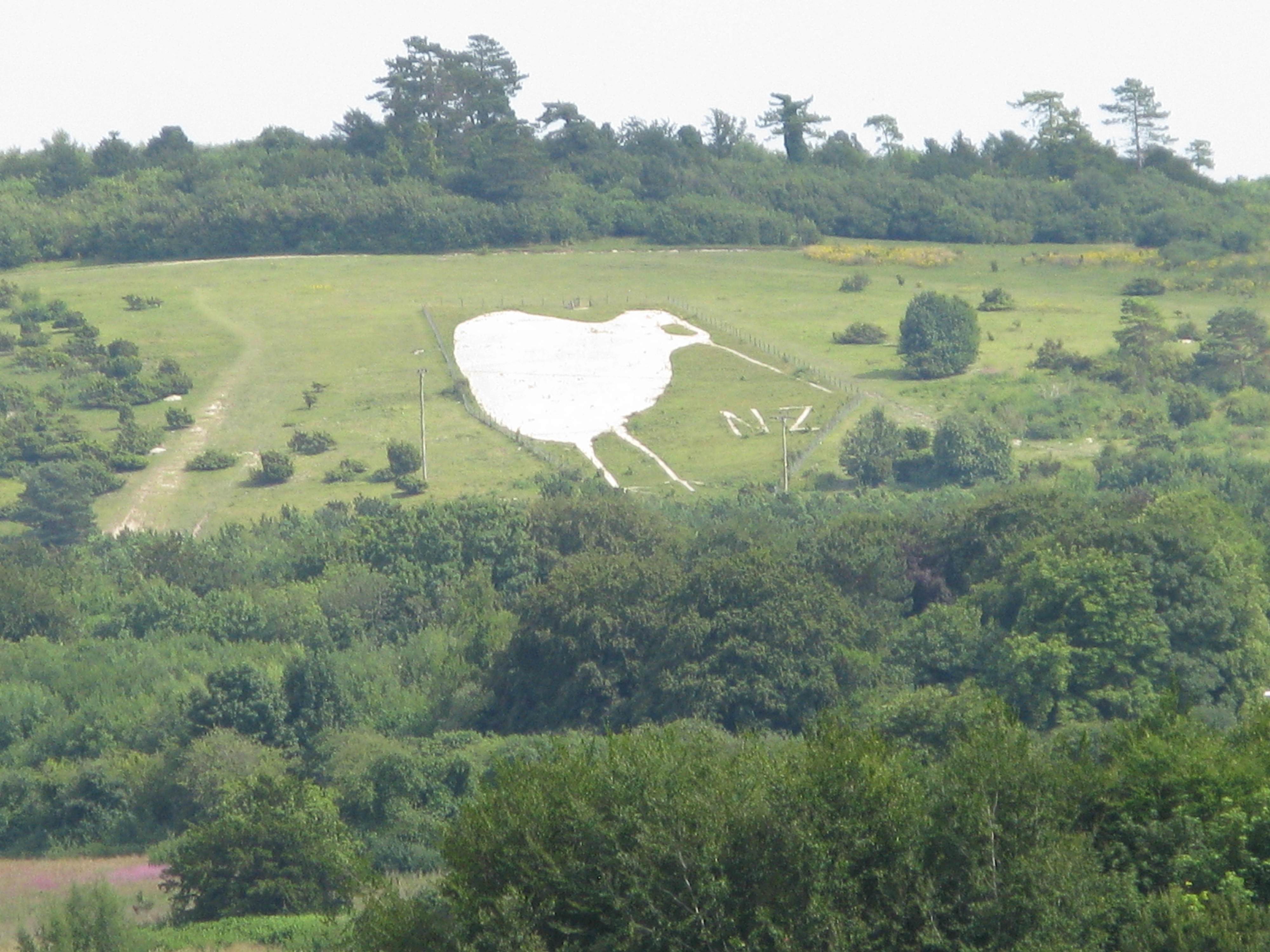 Emblem carved into the chalk hillside at Bulford, England.